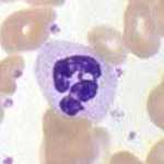 Neutrophile segmented Granulocyte